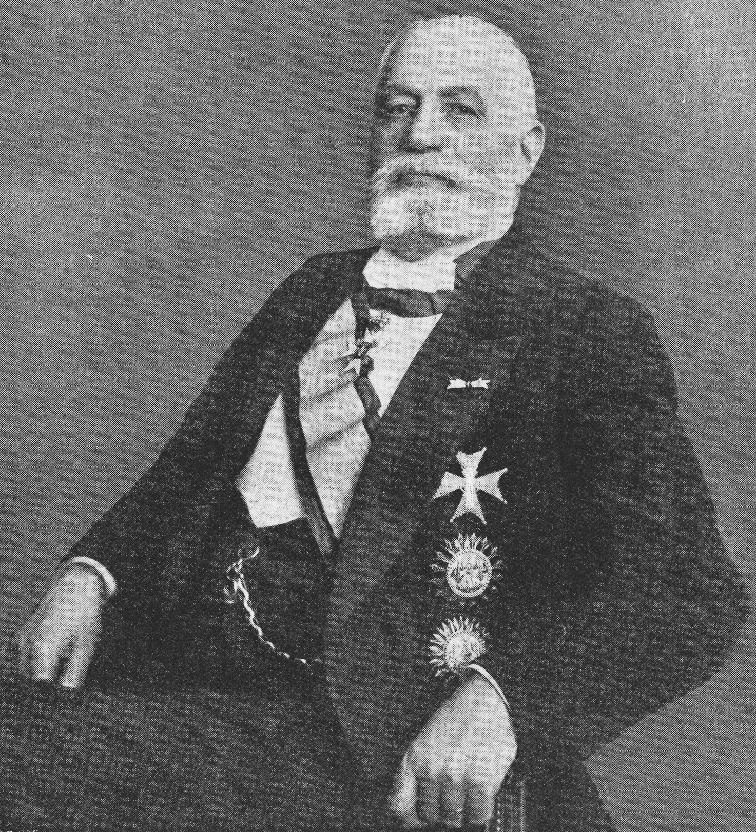 Picture of Axel Johnson, Swedish industrialist